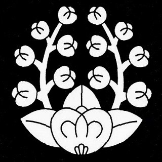 Crest of second Maeda family